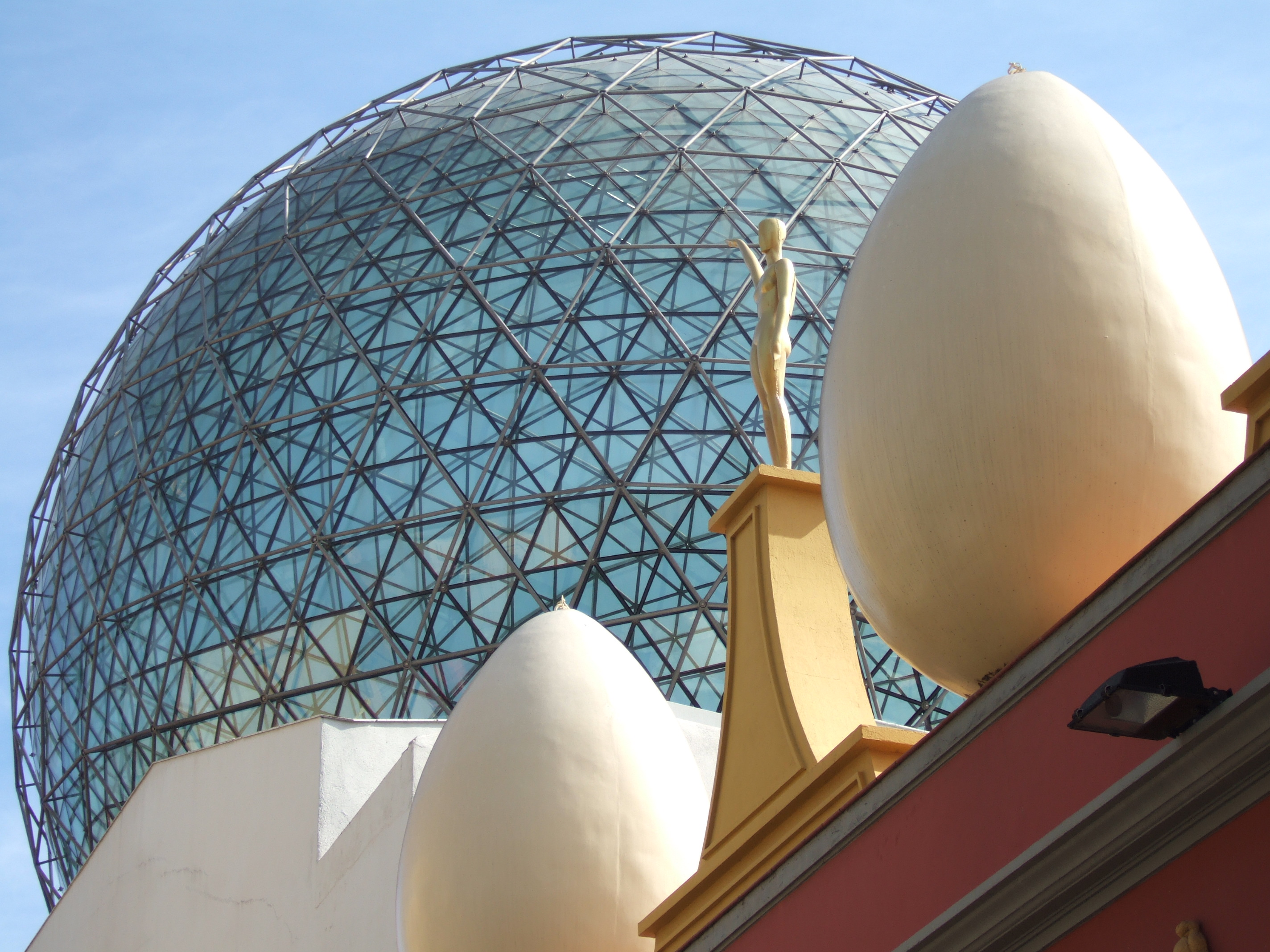 View of the Teatre-Museu Dalí's dome with the giant eggs and one painted dummy, Figueres (Alt Empordà, Catalonia, Spain)